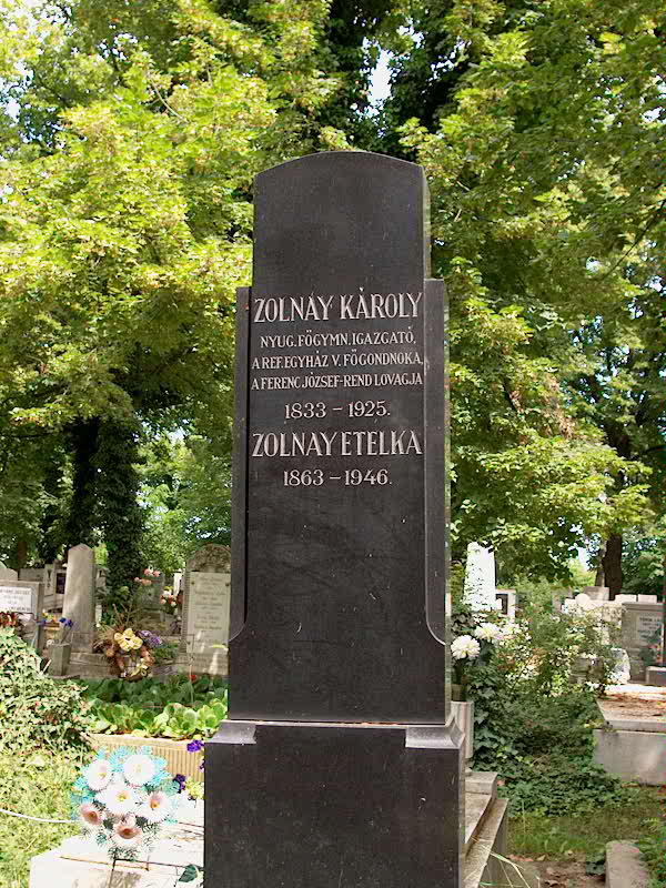 The tomb of Károly Zolnay (1833-1925) High School Director at the "Szeder" Cemetery